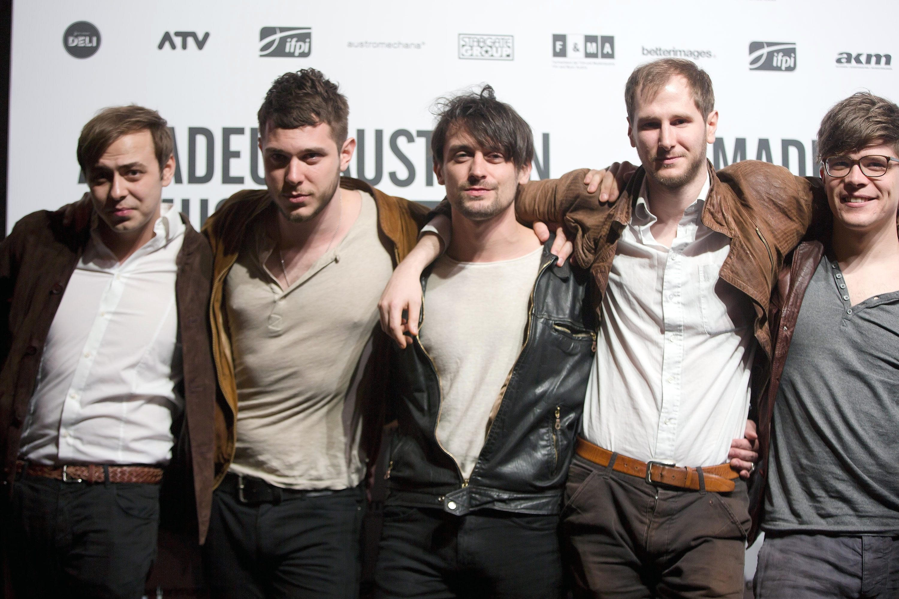 Wanda at the Amadeus Austrian Music Award 2015 at Volkstheater in Vienna